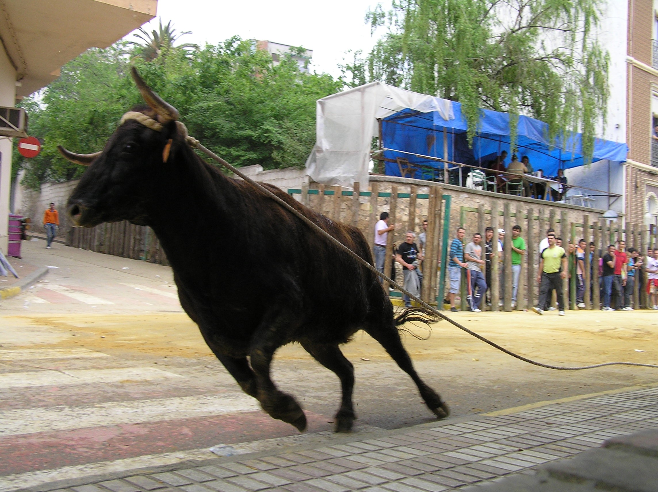 Vaca en San marcos